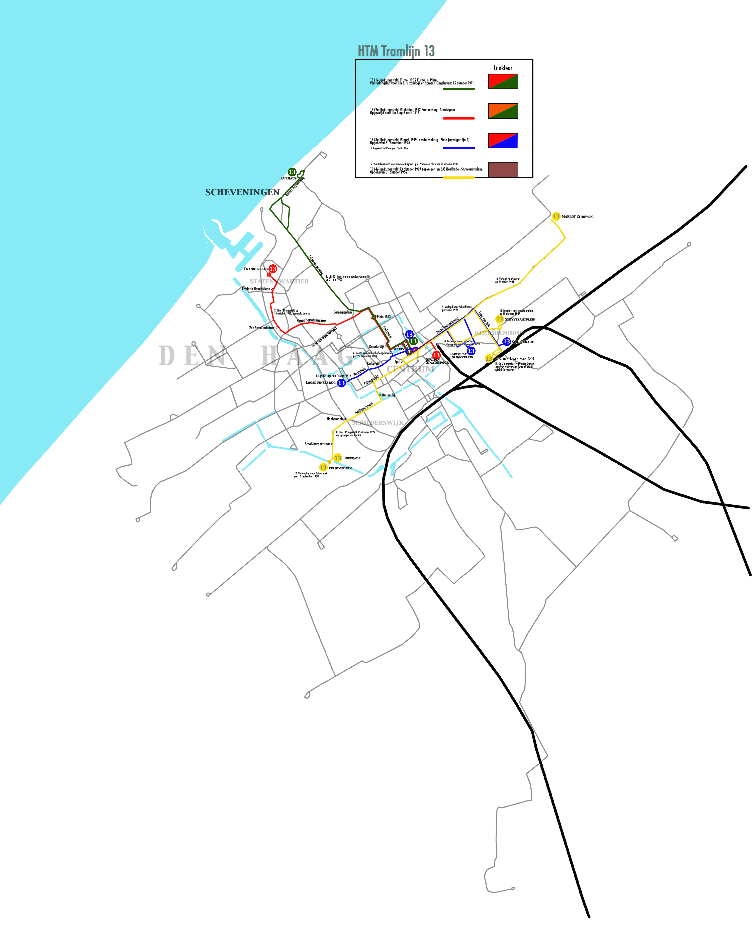 All former tram route 13, The Hague, on a map.